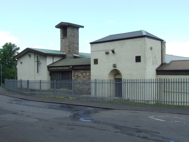 St Martin's Church, Mansion Avenue, Port Glasgow